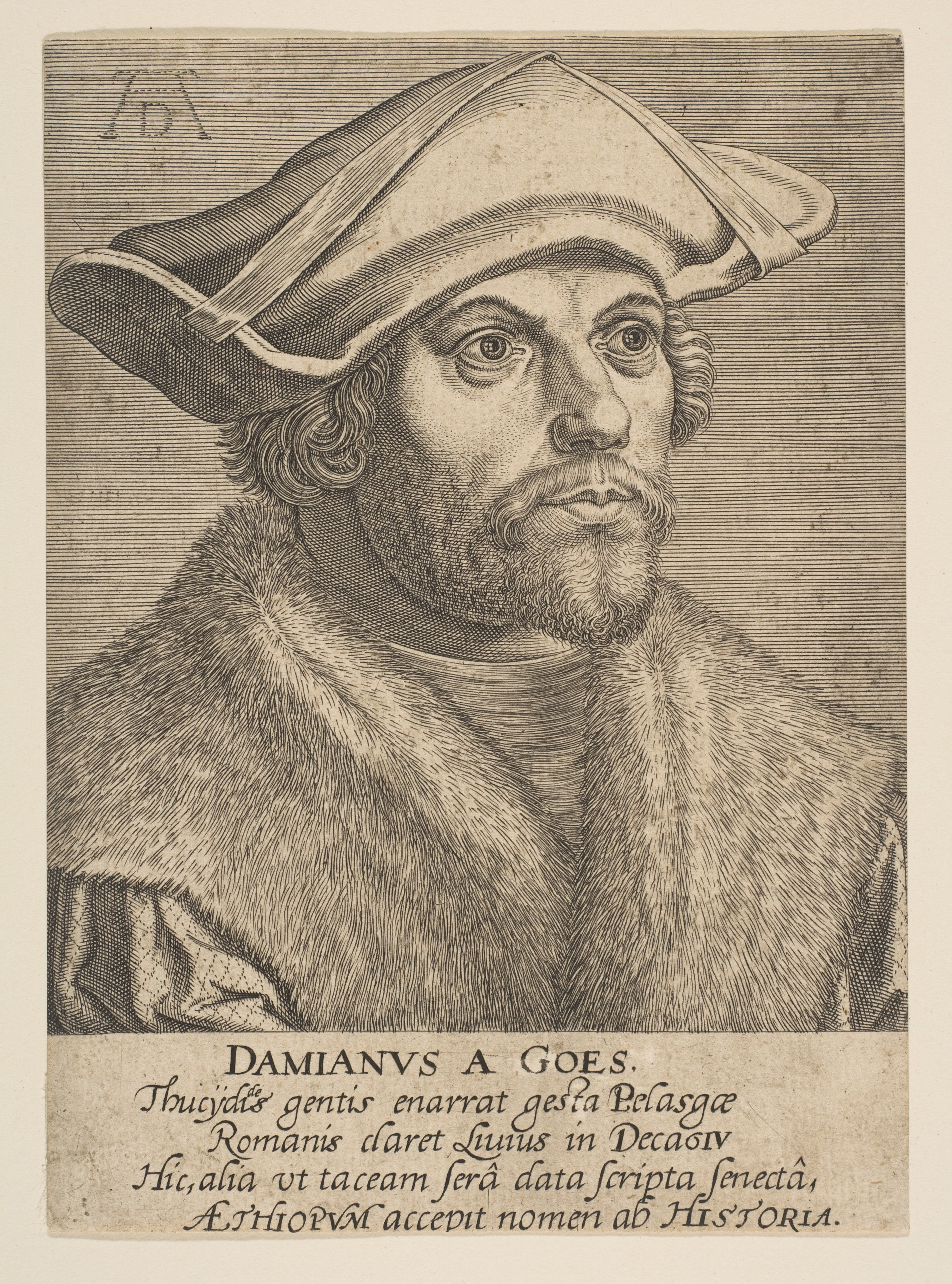 Print; Prints